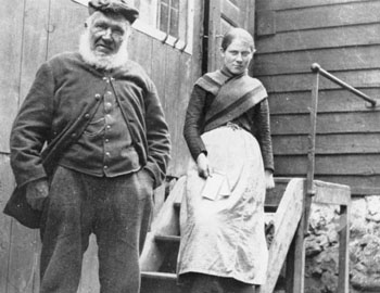 Hans Christopher Müller (1818-1897) and Maria Mikkelsen from the first post office of the Faroe Islands